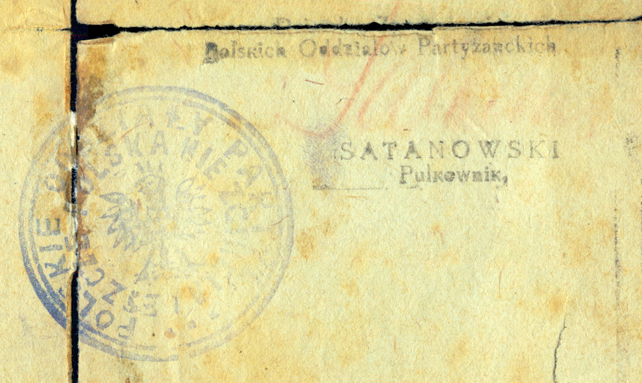 A scan of a fragment of a document from May the 17th, 1944, signed by col. Satanowski, commander of Polish Partisan Troops "Jeszcze Polska Nie Zginęła" (the first worlds of Polish national anthem). Contains a seal of the troops and a sign of its colonel.